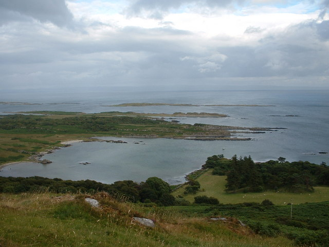 Ardilistry Bay from Cnoc Rhaonastil, near Ardbeg Distillery, Islay